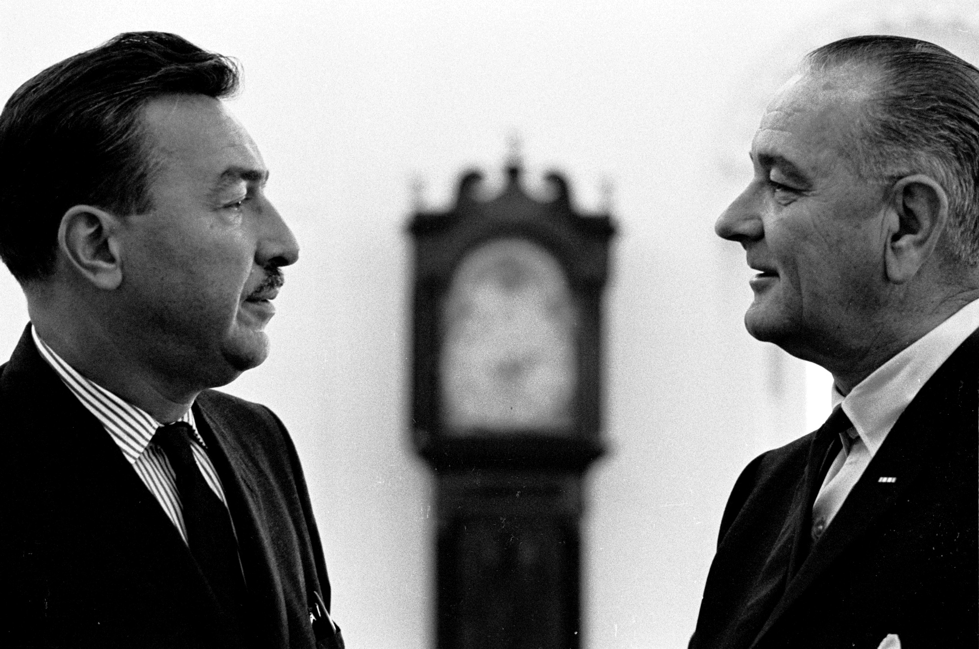 Congressman Adam Clayton Powell, Jr. of New York meeting with President Lyndon B. Johnson in 1965 in the Oval Office.